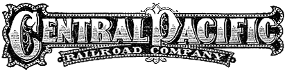 Logo of the Central Pacific Railroad.